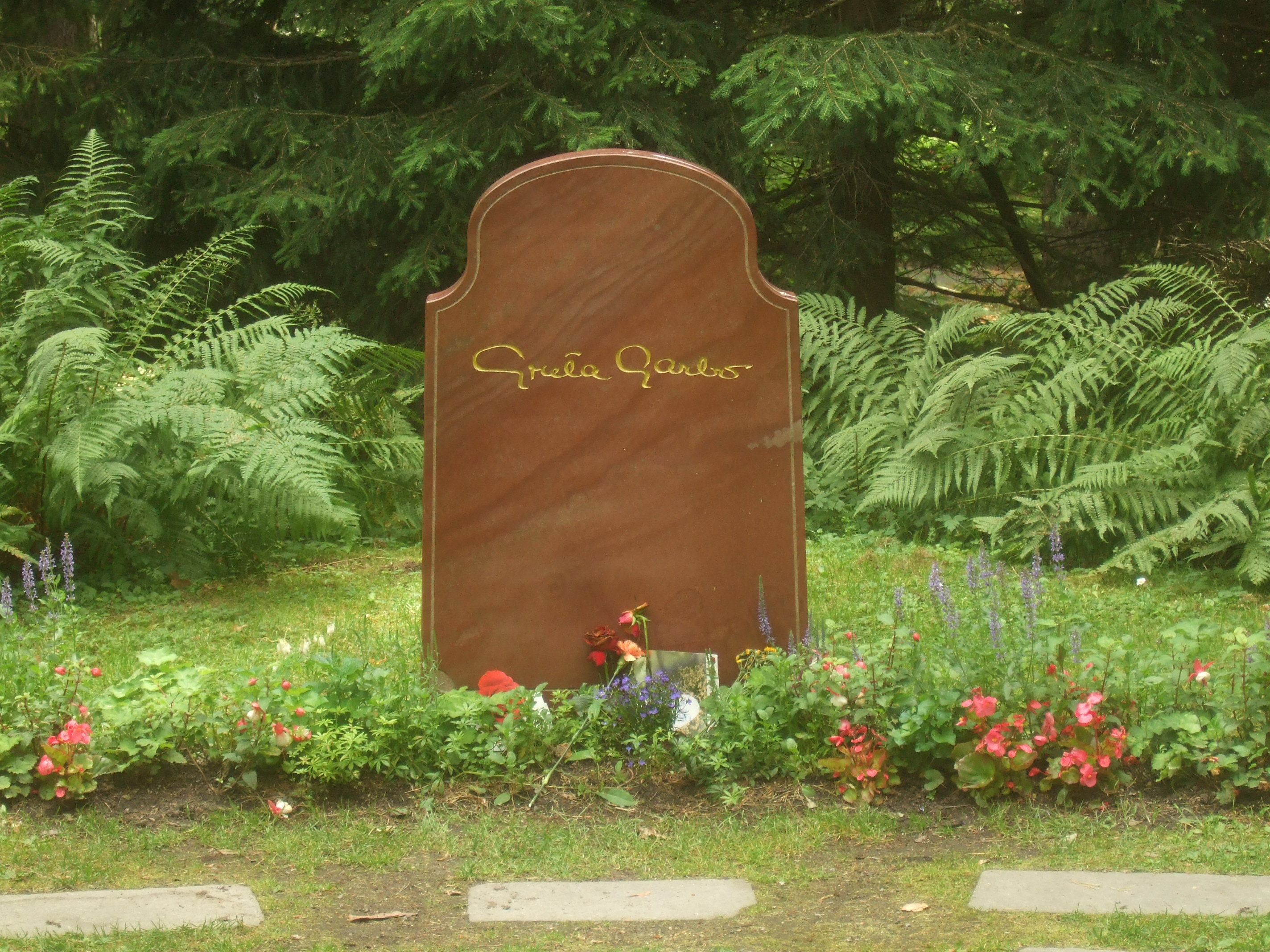 Buildings and outdoor sites of the "Skogskyrkogården" cemetery at Kapellslingan, Enskededalen, Stockholm Municipality